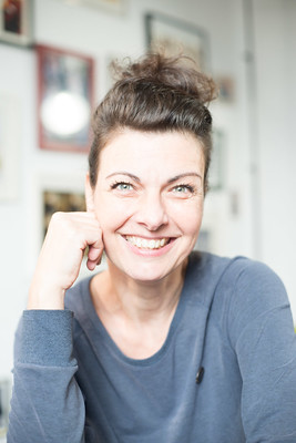 Portrait from the woman Antje Herden